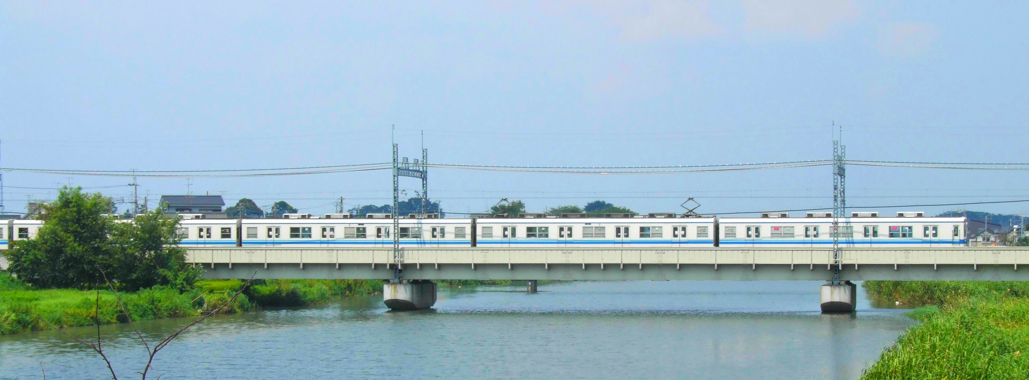 Tōbu Noda Line over Motoara River in Iwatsuki ward, Saitama, Saitama prefecture, Japan. View looking north.